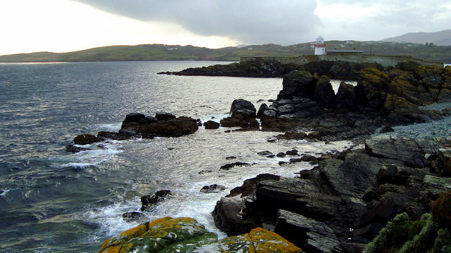 Rocks at Carntullagh Head It's a lively day near the lighthouse of Rotten Island, beyond which is Drumanoo head.